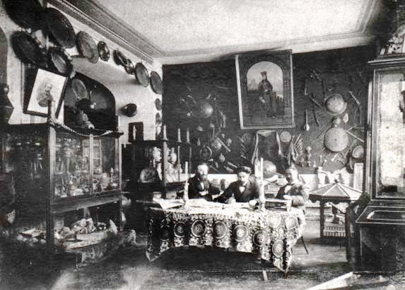 Society for the Spreading of Literacy Among Georgians museum and library